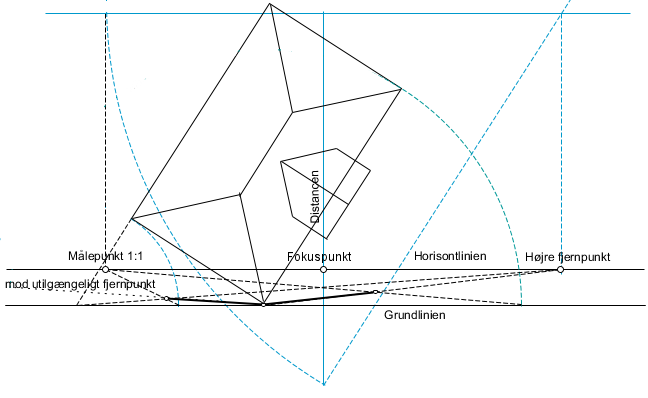 Illustration concerning Perspectiver construction